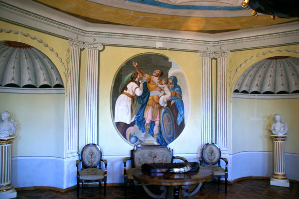 The Oval Room at Śmiełów Palace, Poland.